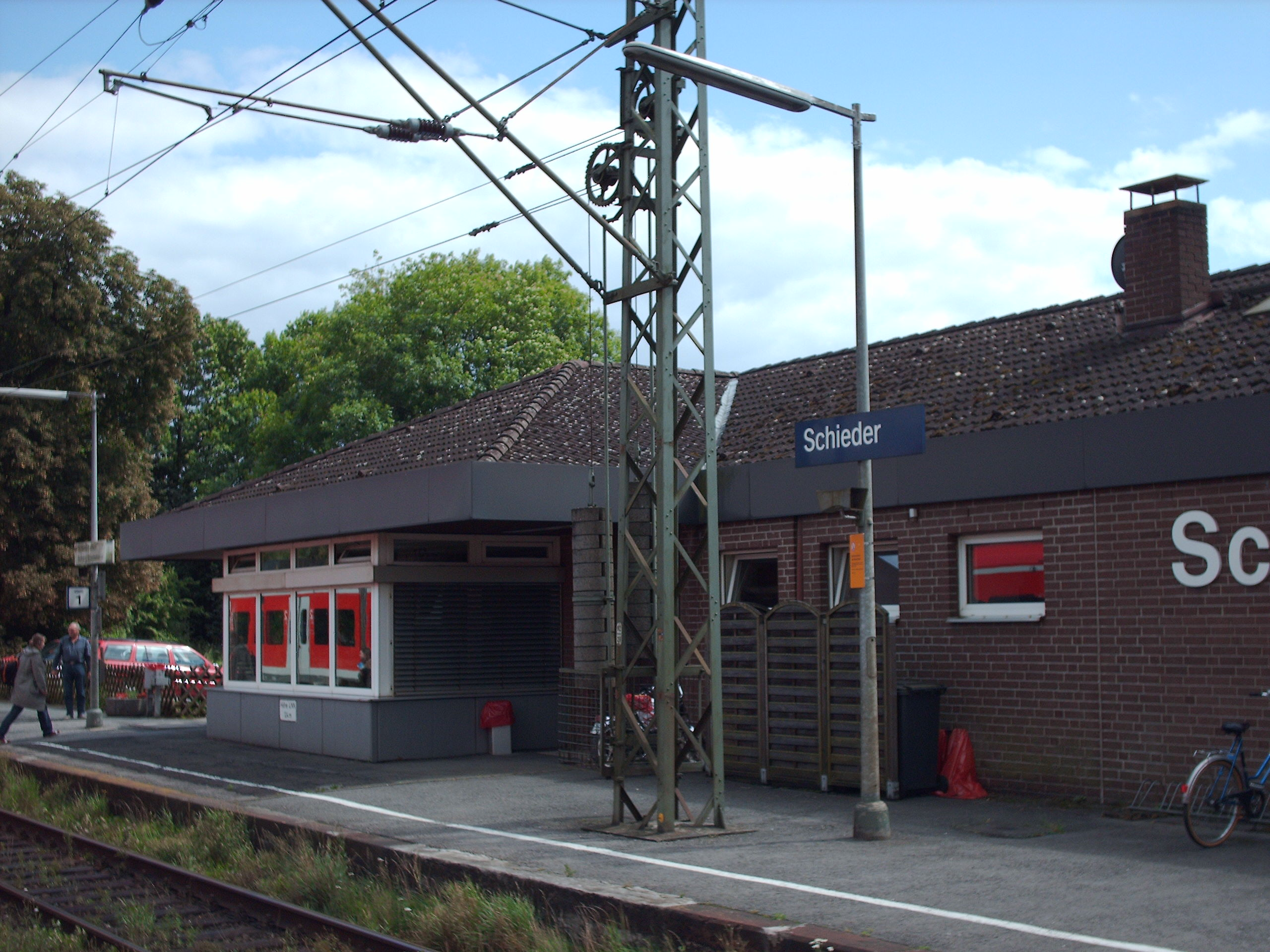 Schieder station, Schieder-Schwalenberg, Germany check usage